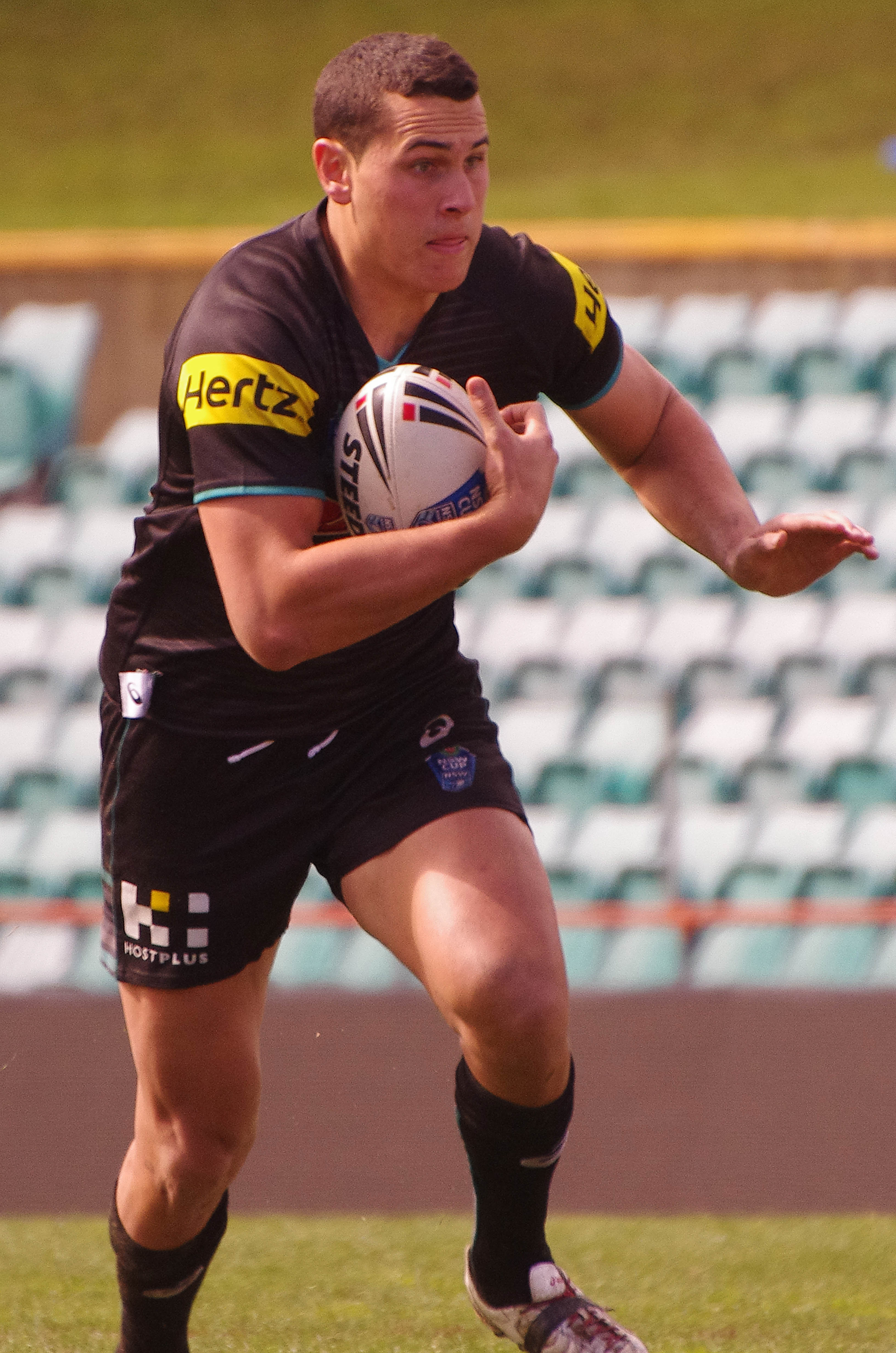 Reagan Campbell-Gillard